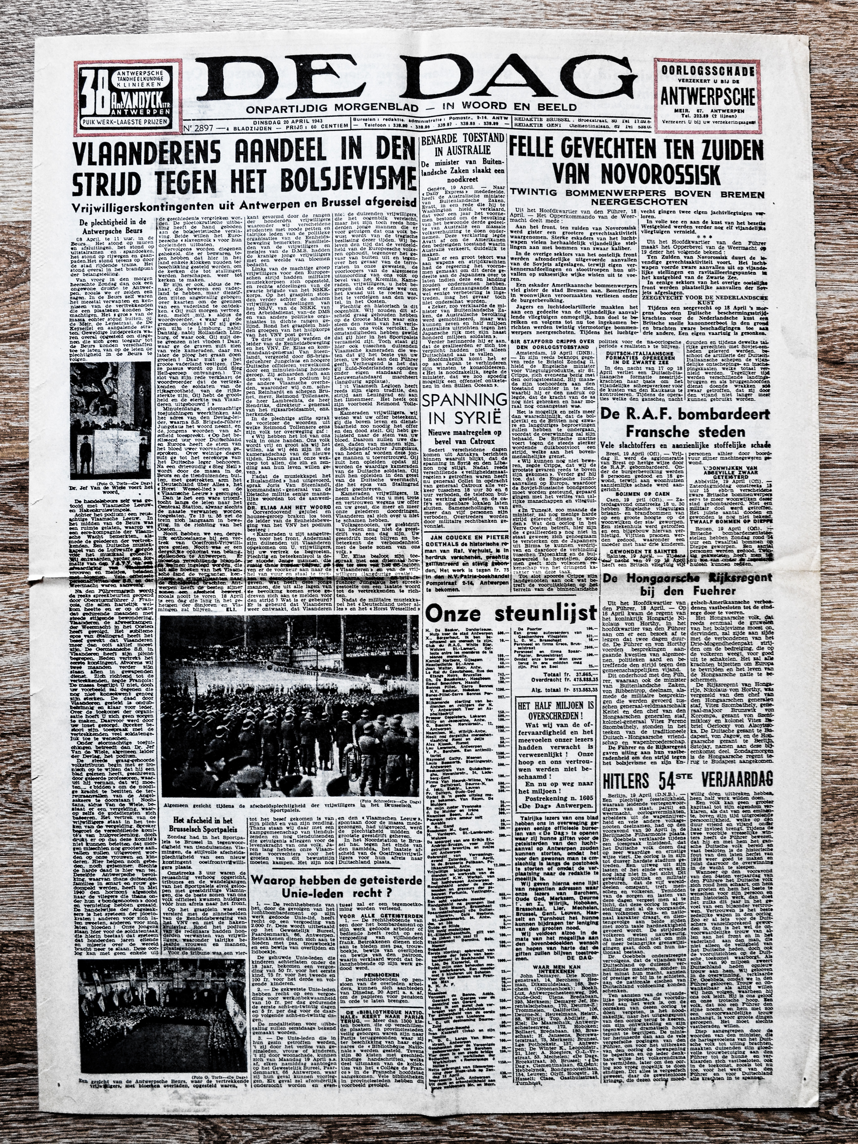 Front page Flemish newspaper "De Dag" 20 April 1943, With headline: "Flanders' part in the fight against Boljevism".